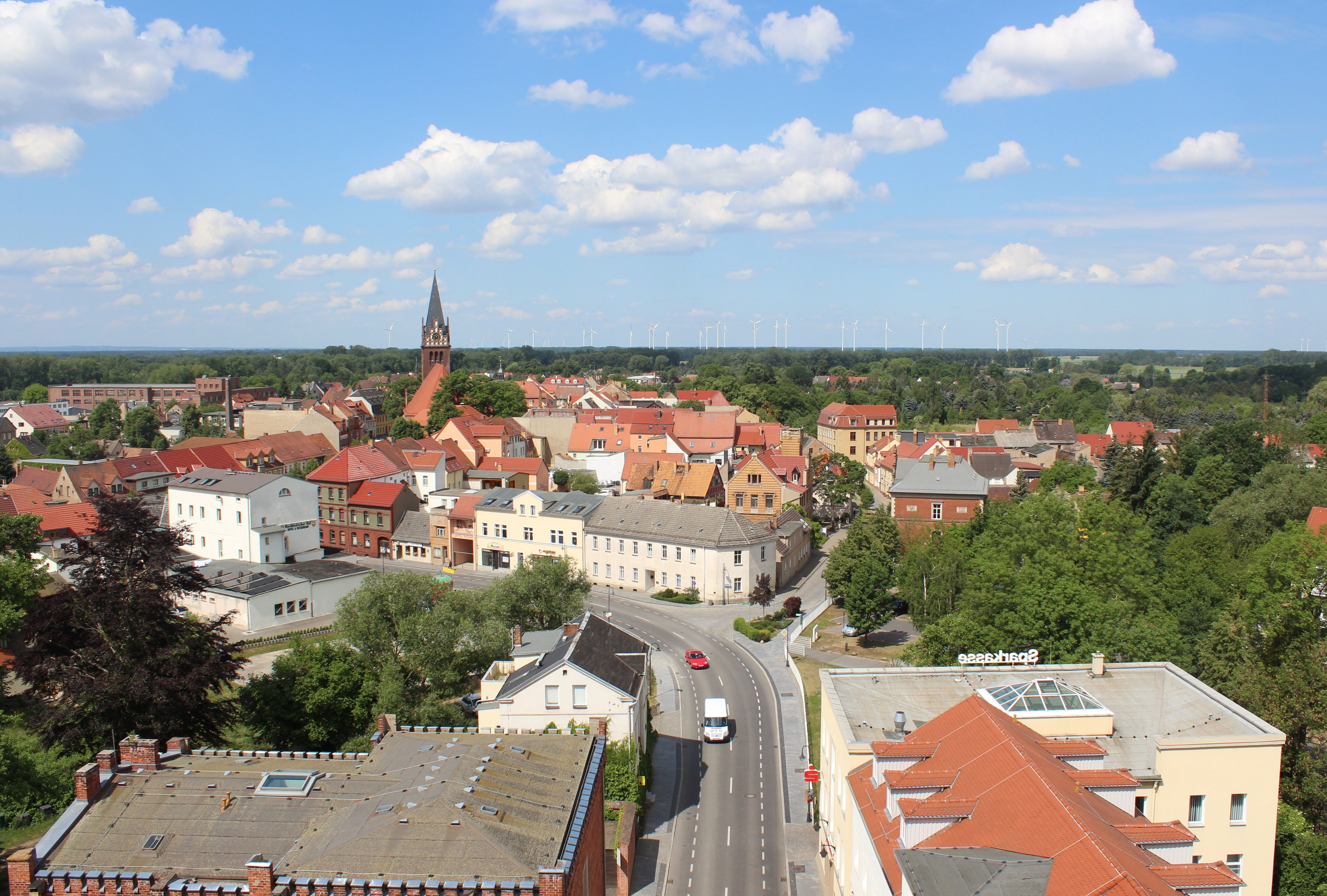 View from Lubwartturm of Bad Liebenwerda.